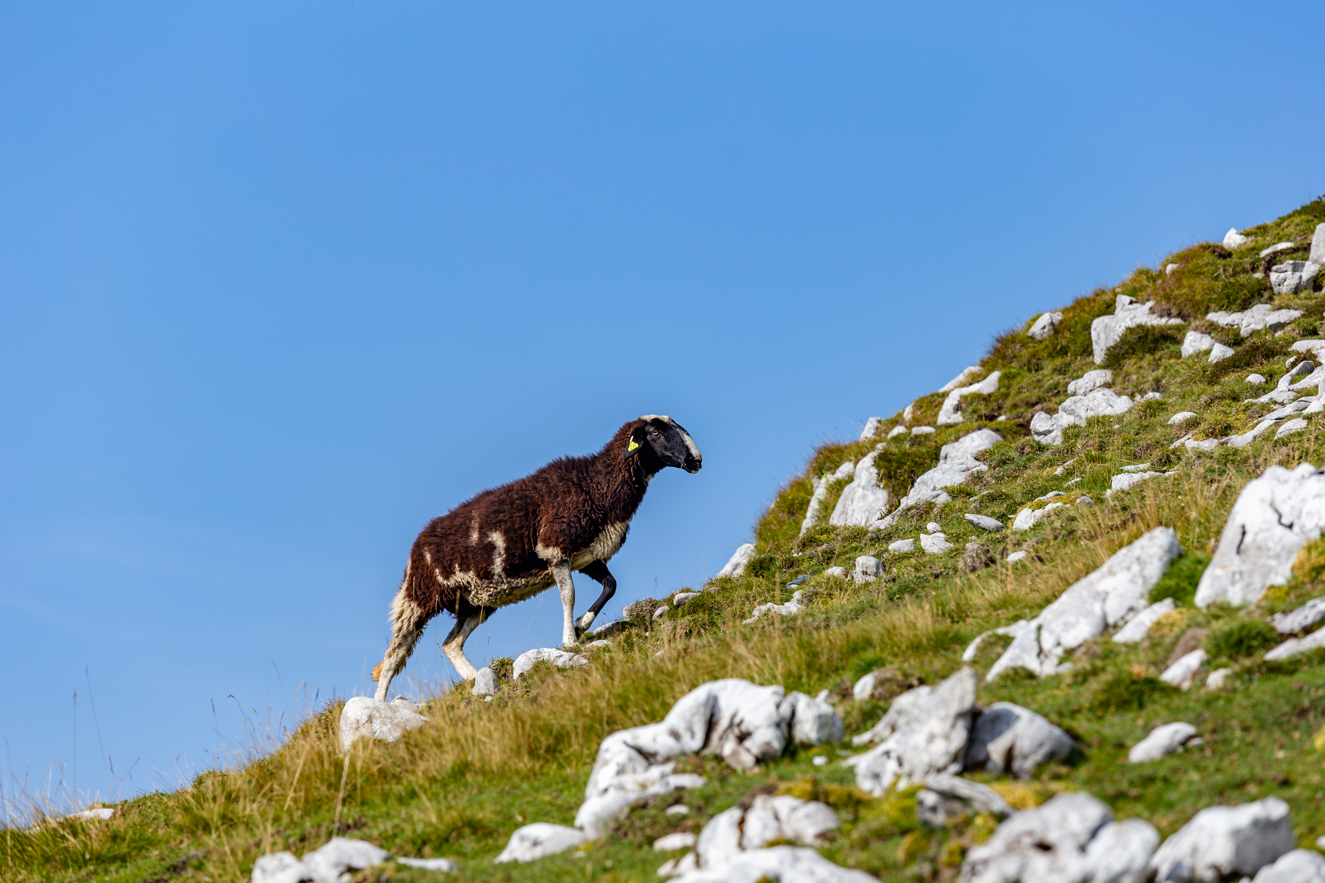 Sheep on a slope of Veliki Vrh, Karawanks, Slovenia